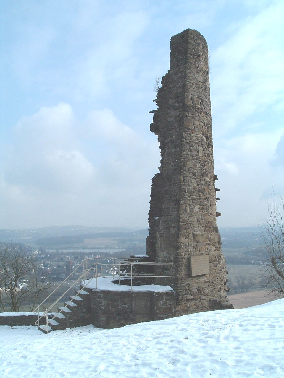 The castle "Burg Volmarstein" is a ruin in Wetter (Ruhr)-Volmarstein near Hagen, Germany. It was built in 1100 by archbishop Friedrich I. von Schwarzenburg. You can see one of three towers of the ruin. Its condition is better than the two others.